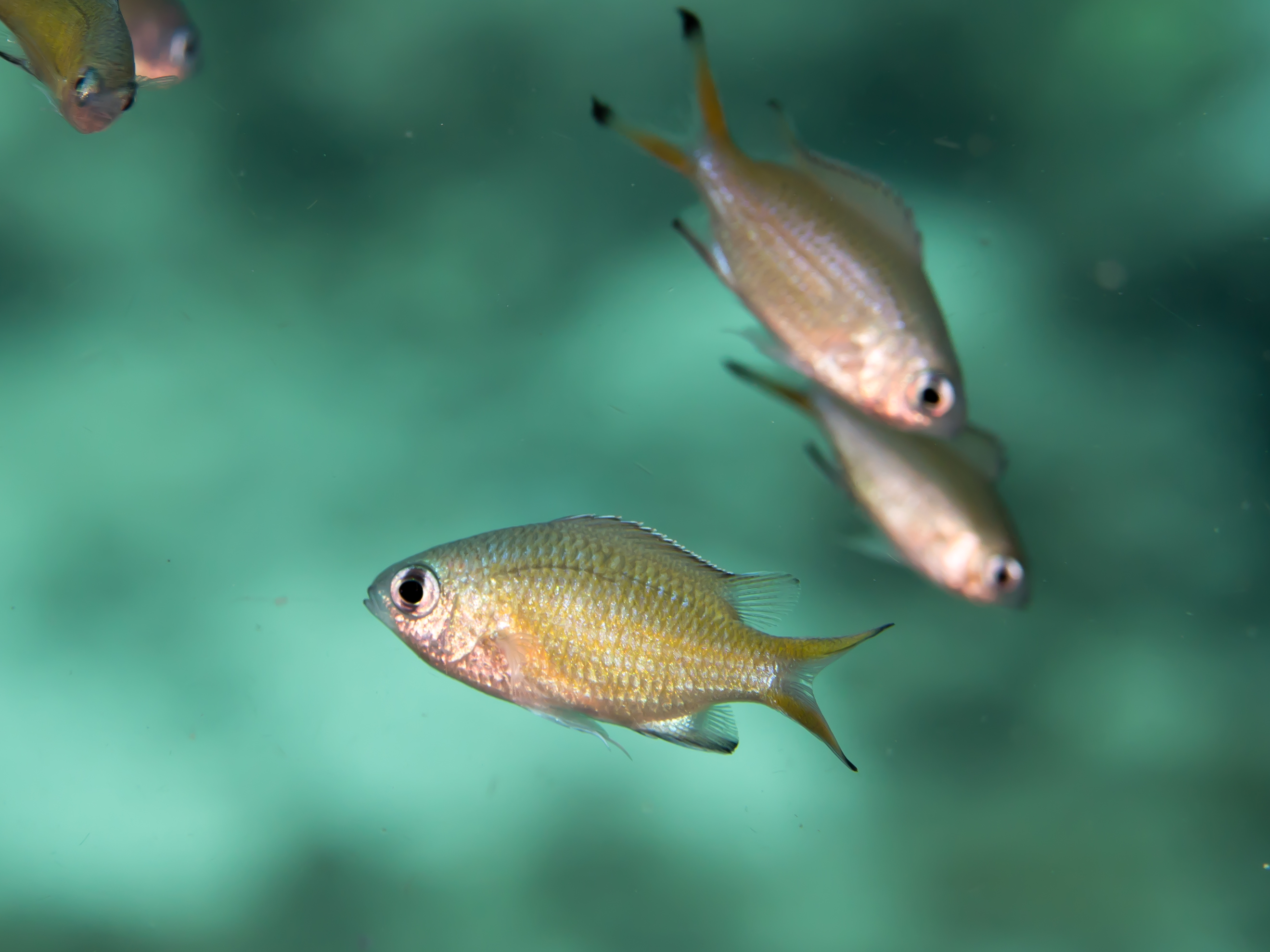 Romblon, Philippines - Weber's chromis (Chromis weberi)